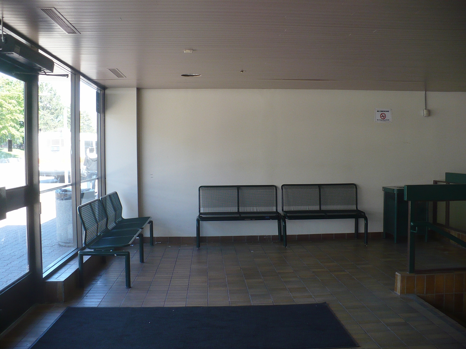 Indoor waiting area at South Common Centre Bus Terminal in Mississauga, Ontario.